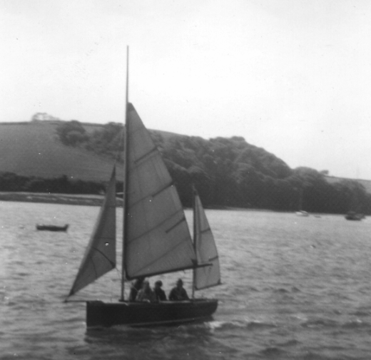 A Salcombe Yawl reefed, taken from the deck of Kiwi, residential vessel of the Island Cruising Club, moored somewhere on the Kingsbridge Estuary, near Salcombe. The crew of the yawl will be pupils at Stockport Grammar School.